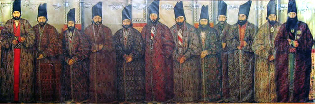 Sons of Abbas Mirza and other princes in the early years of the reign of Nasser-ed-Din Shah from a painting by Sani-ol-Molk in the Nezamiyeh Hall. From left to right: Bahram Mirza "Moezz-ed-Dowleh" (2nd son of Abbas Mirza); Ardeshir Mirza "Rokn-ed-Dowleh" (9th son of Abbas Mirza); Soltan Morad Mirza "Hessam-ol-Saltaneh," "Conqueror of Herat" (13th son of Abbas Mirza); Fereydoun Mirza "Nayeb-ol-Ayaleh" (5th son of Abbas Mirza); Khanlar Mirza "Ehtesham-ed-Dowleh" (17th son of Abbas Mirza); Firouz Mirza "Nosrat-ed-Dowleh" (16th son of Abbas Mirza); Hamzeh Mirza "Heshmat-ed-Dowleh" (21st son of Abbas Mirza); Fathollah Mirza "Sho'a Saltaneh" (53rd son of Fath Ali Shah); Ildorom Bayazid Mirza (22nd son of Abbas Mirza); Ahmad Mirza "Mo'in-ed-Dowleh" (10th son of Abbas Mirza); Emam Gholi Mirza "E'mad-ed-Dowleh" (6th son of Mohammad Ali Mirza "Dowlatshah," son of Fath Ali Shah); Tahmasseb Mirza "Moayyed-ed-Dowleh" (2nd son of Mohammad Ali Mirza "Dowlatshah," son of Fath Ali Shah).